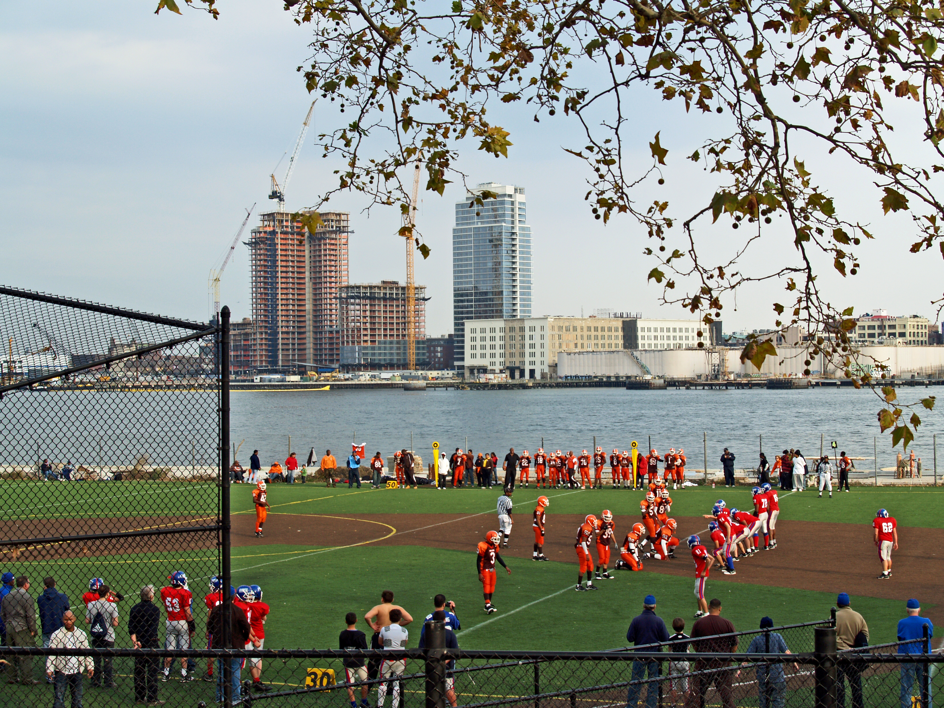 New York City's East River Park in Manhattan's East Village in the Fall of 2008. Photographer's blog post about the East River Park photographs.